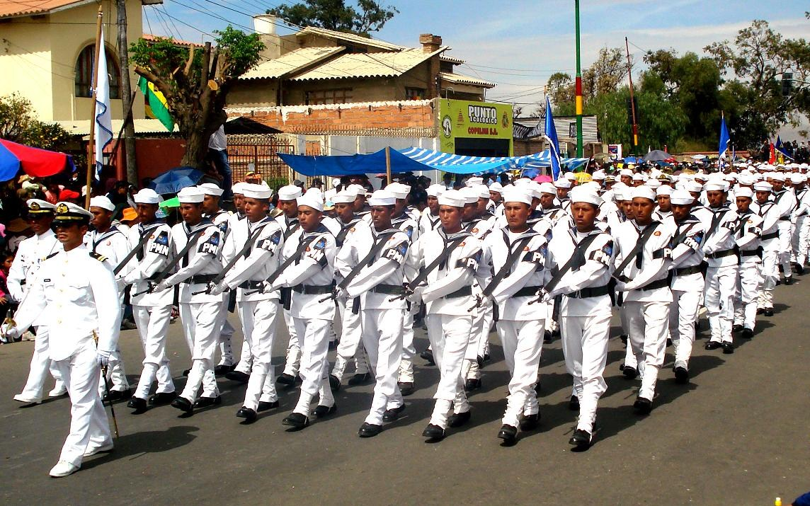 Navy Military Police of Bolivia in Cochabamba, during the military parade.